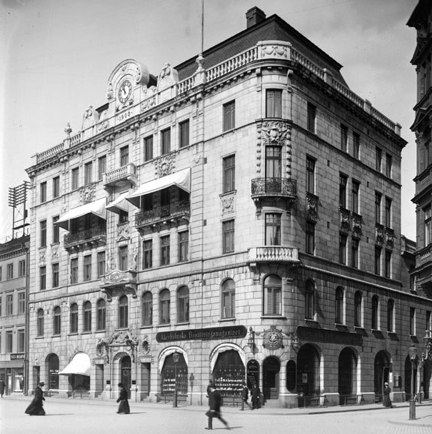 Hörnet av Smålandsgatan 16 och Biblioteksgatan 1 vid Norrmalmstorg 1, Svenska Lifs hus